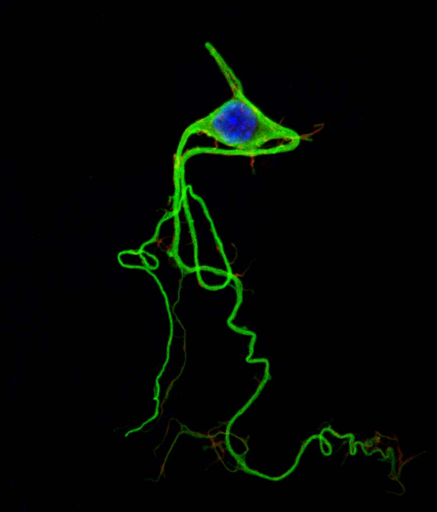 Neuron from Chicken embryo photographed with confocal microscope after being dyed.